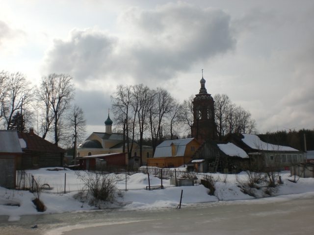 Paraklit-Tarbeev Monastery (Paraklit-Tarbeeva Pustyn) near Troitse-Sergieva Lavra. St. Paraklit Church